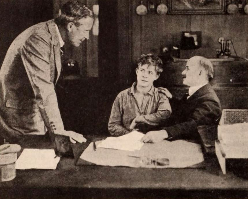 Still from the American drama film The Soul of Youth (1920) under its working title The Boy with film director William Desmond Taylor, Lewis Sargent, and jurist Benjamin Barr Lindsey, on page 50 of the May 22, 1920 Exhibitors Herald.